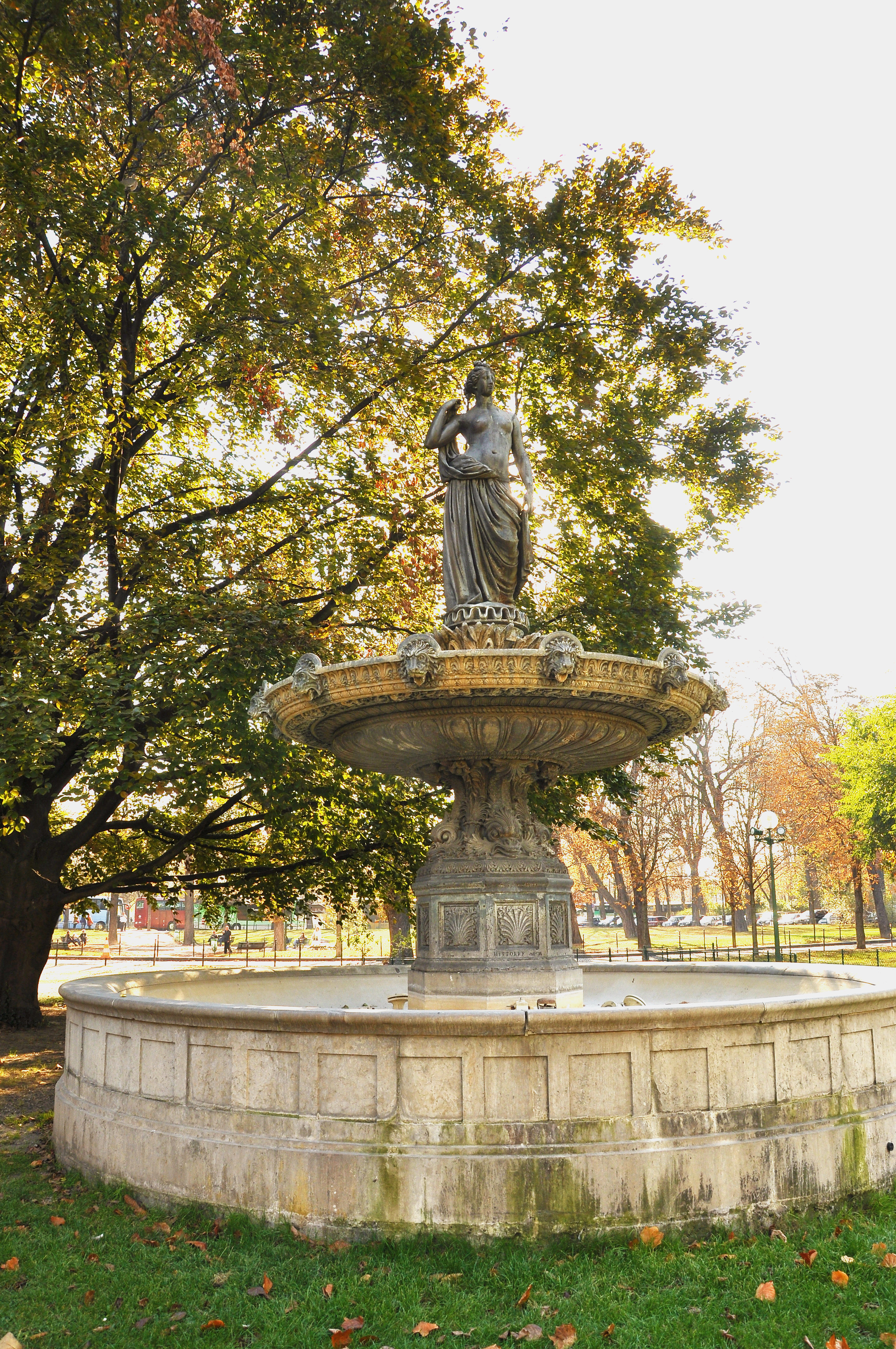 Diane's Fountain located near the restaurant Ledoyen at Champs-Élysées Gardens in the 8th district of Paris. Built in 1840 by architect Jacques Hittorff and decorated with statue of Diane by sculptor Louis Desprez.